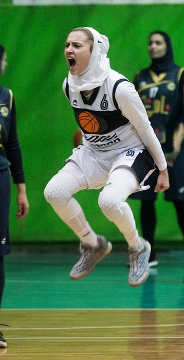 Iranian women basketball league